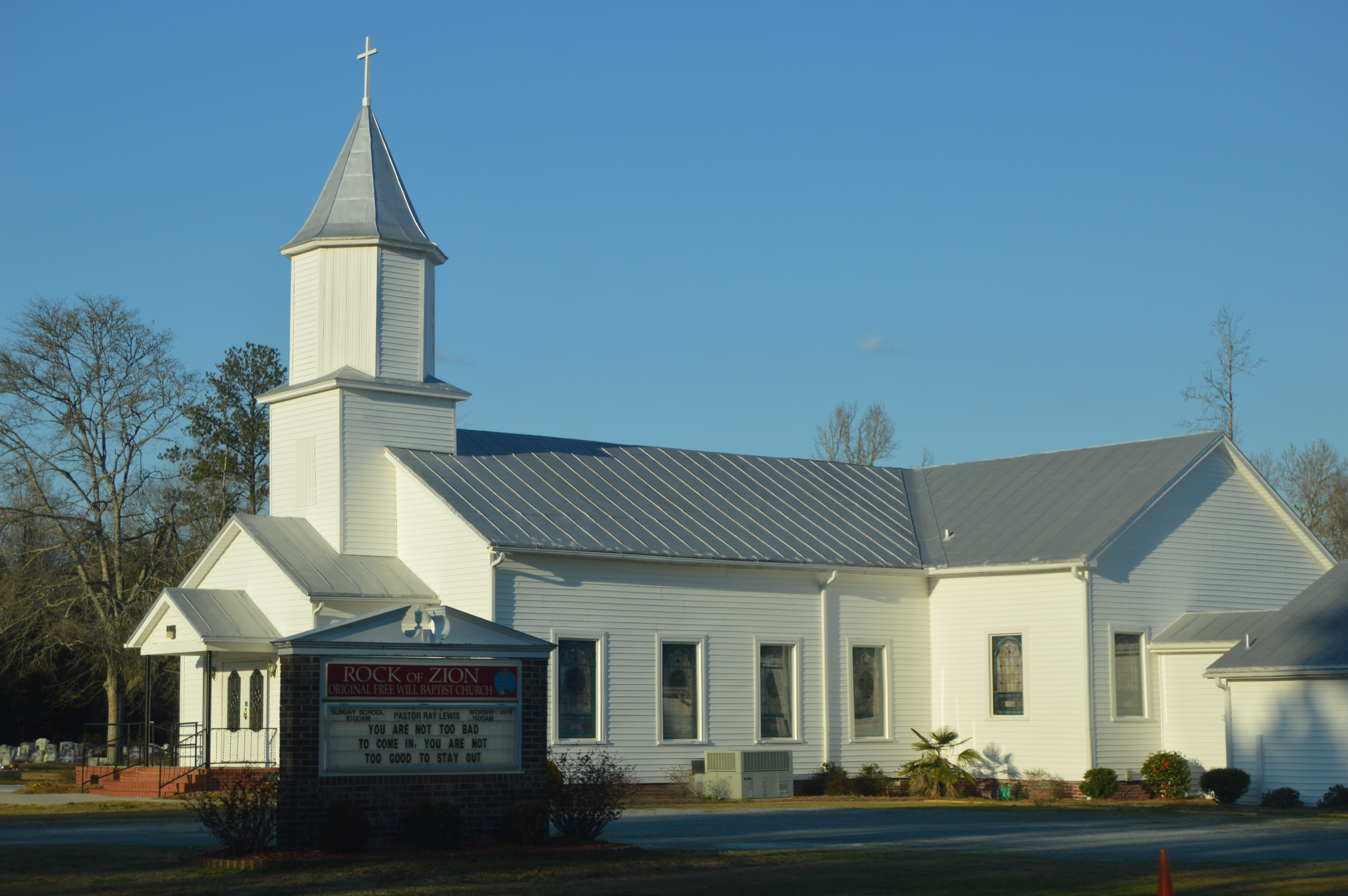 Southern side and front of Rock of Zion Original Free Will Baptist Church, located at 357 North Carolina Highway 306 in Grantsboro, North Carolina, United States.